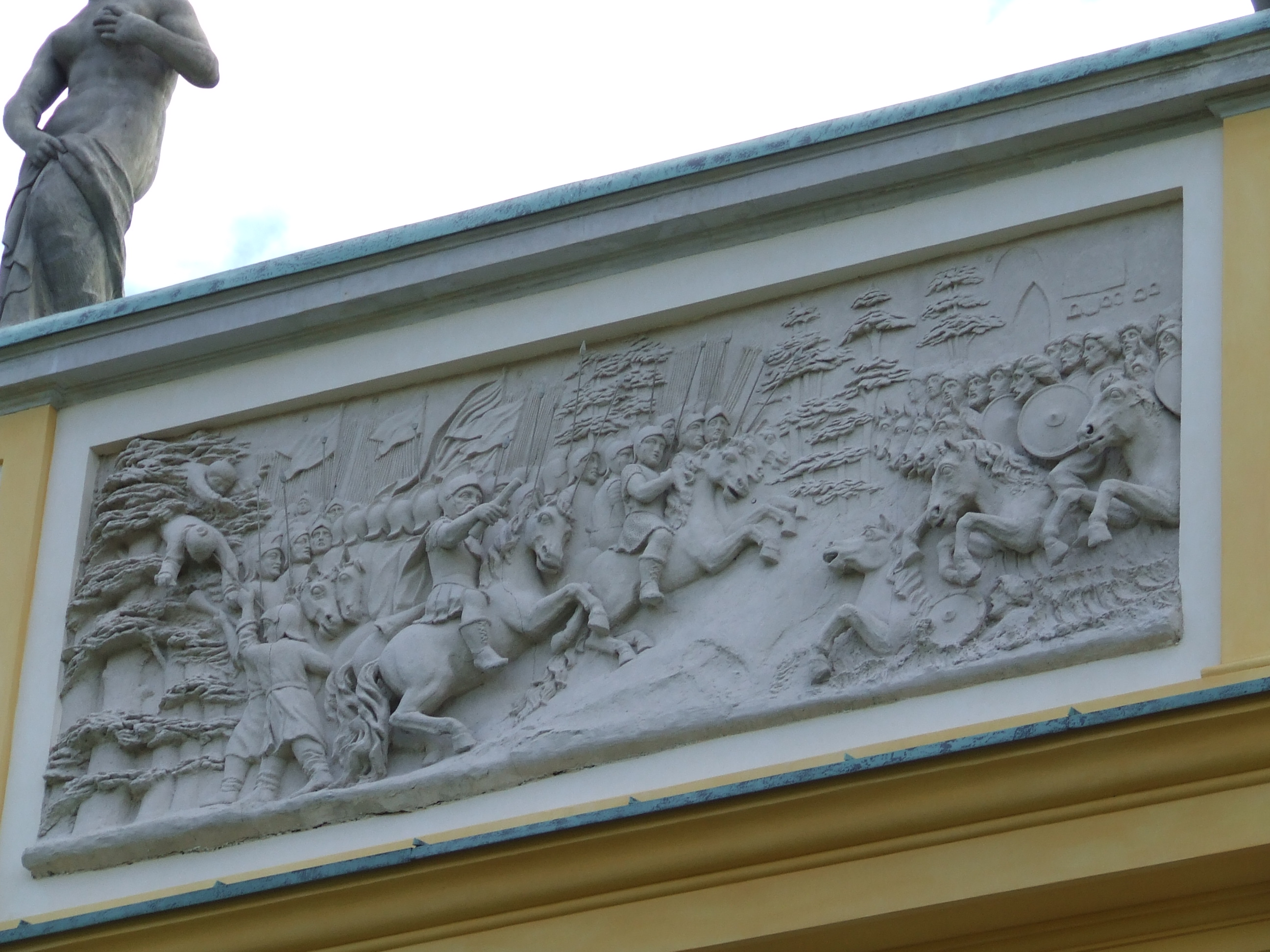 Expedition of Jan Sobieski on Turks in 1672 / wyprawa na czambuły tureckie; emboss on the wall of Wilanów pallace in Warsaw